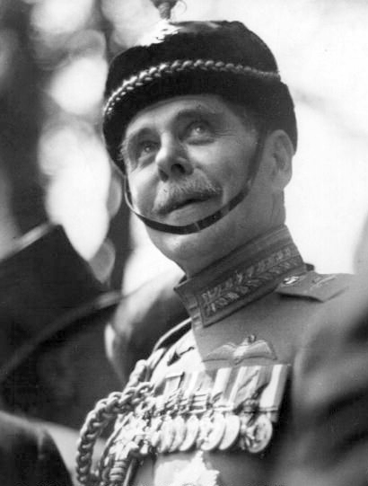 This image is a digitized photograph of Hugh Trenchard. Trenchard is shown in RAF full dress. The image was taken from which bore the copyright notice: Crown Copyright 2003 and © Deltaweb International Ltd 2003. Deltaweb International Ltd's web site ( states that they first formed in 1993, some 75 years or more after this photograph was taken, and so the extent of their copyright claim cannot cover this photograph; it presumably relates to the design of the page in which this photograph sat. Therefore this photograph is now in the public domain.